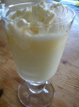 Picture of white hot chocolate taken by myself